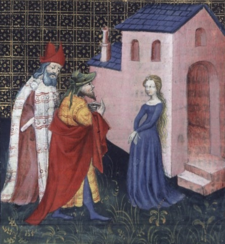 Susanna and the Elders.